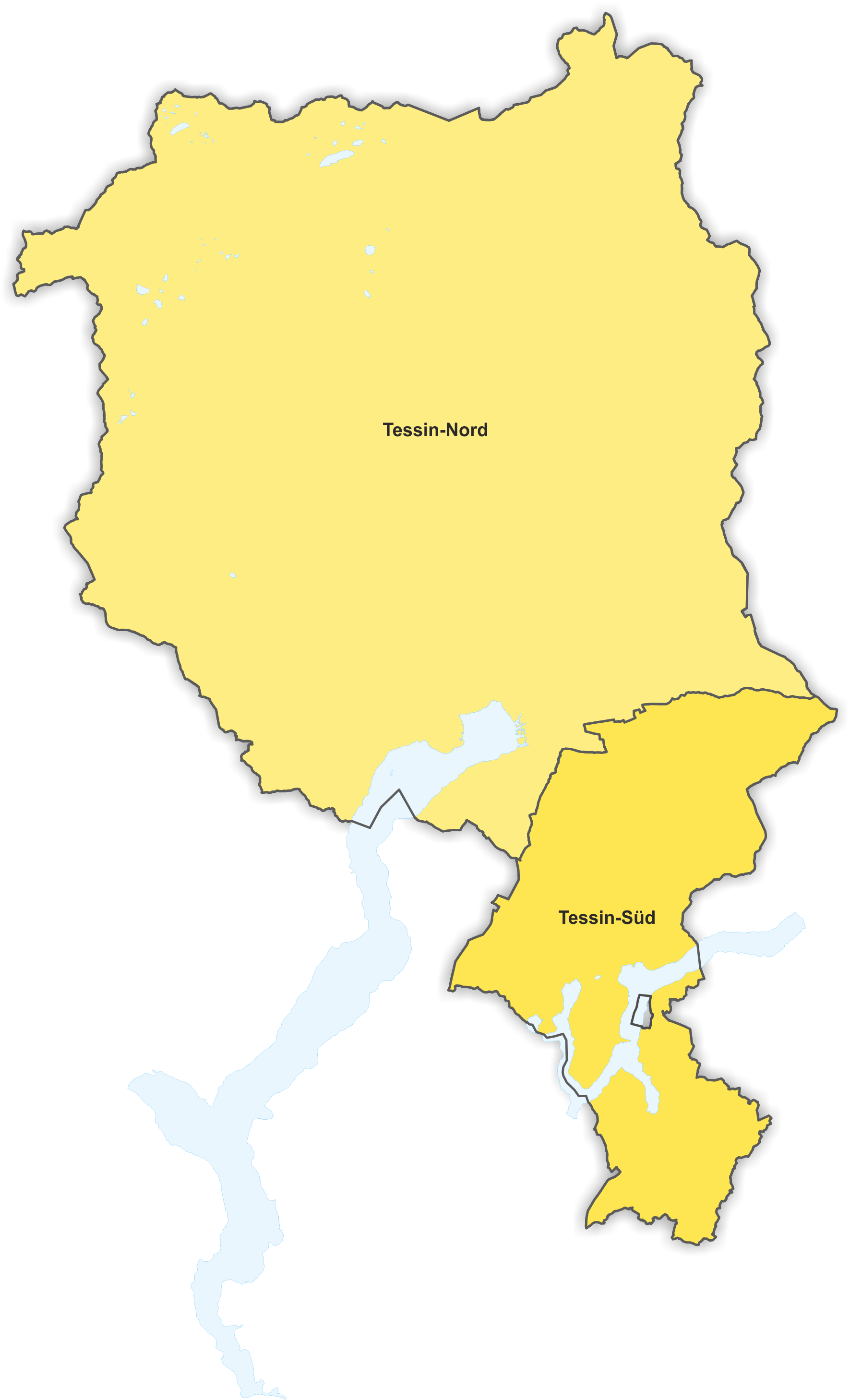 National council constituencies in the canton of Ticino from 1851 to 1878